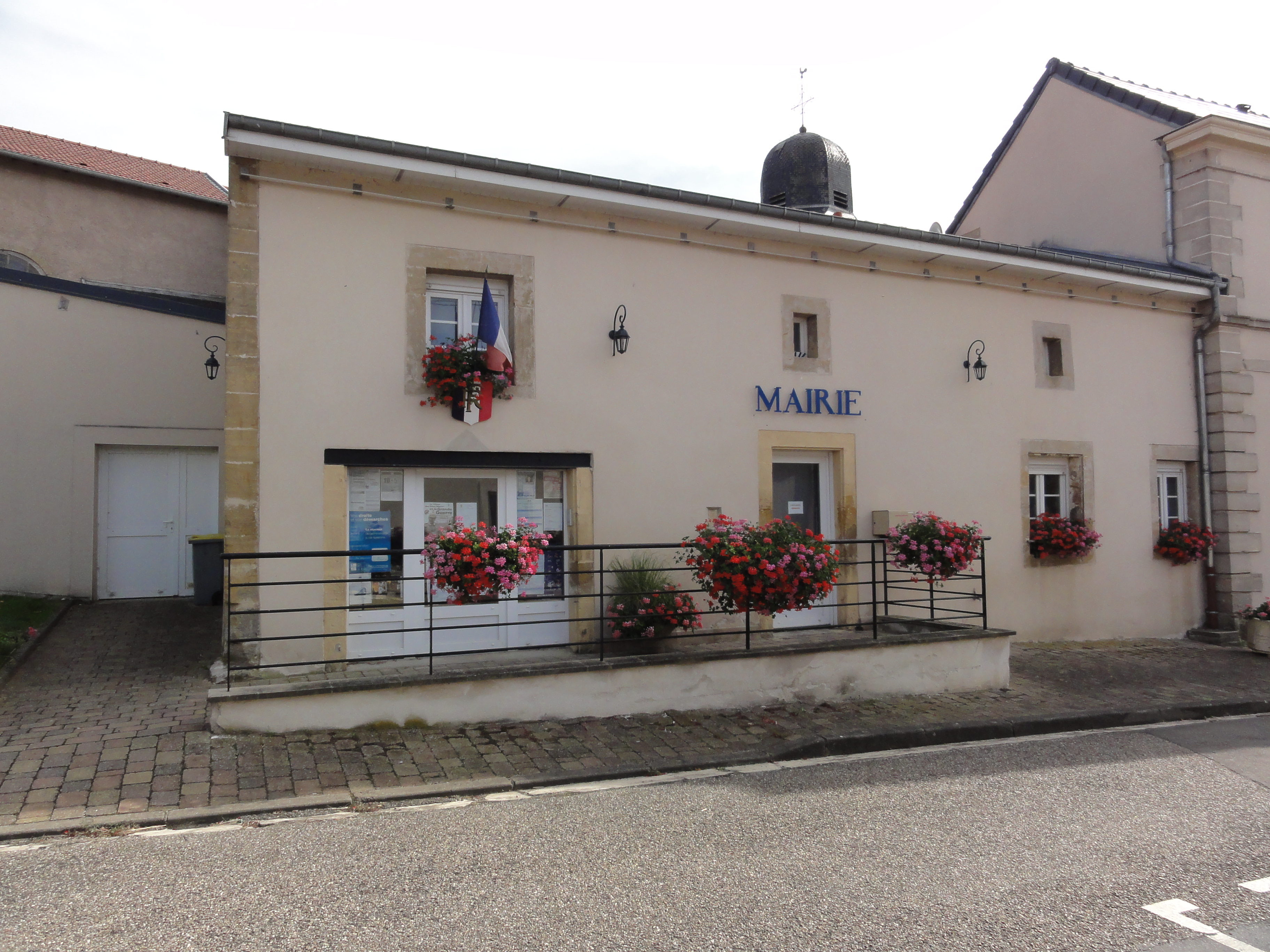 Nouillonpont (Meuse) mairie